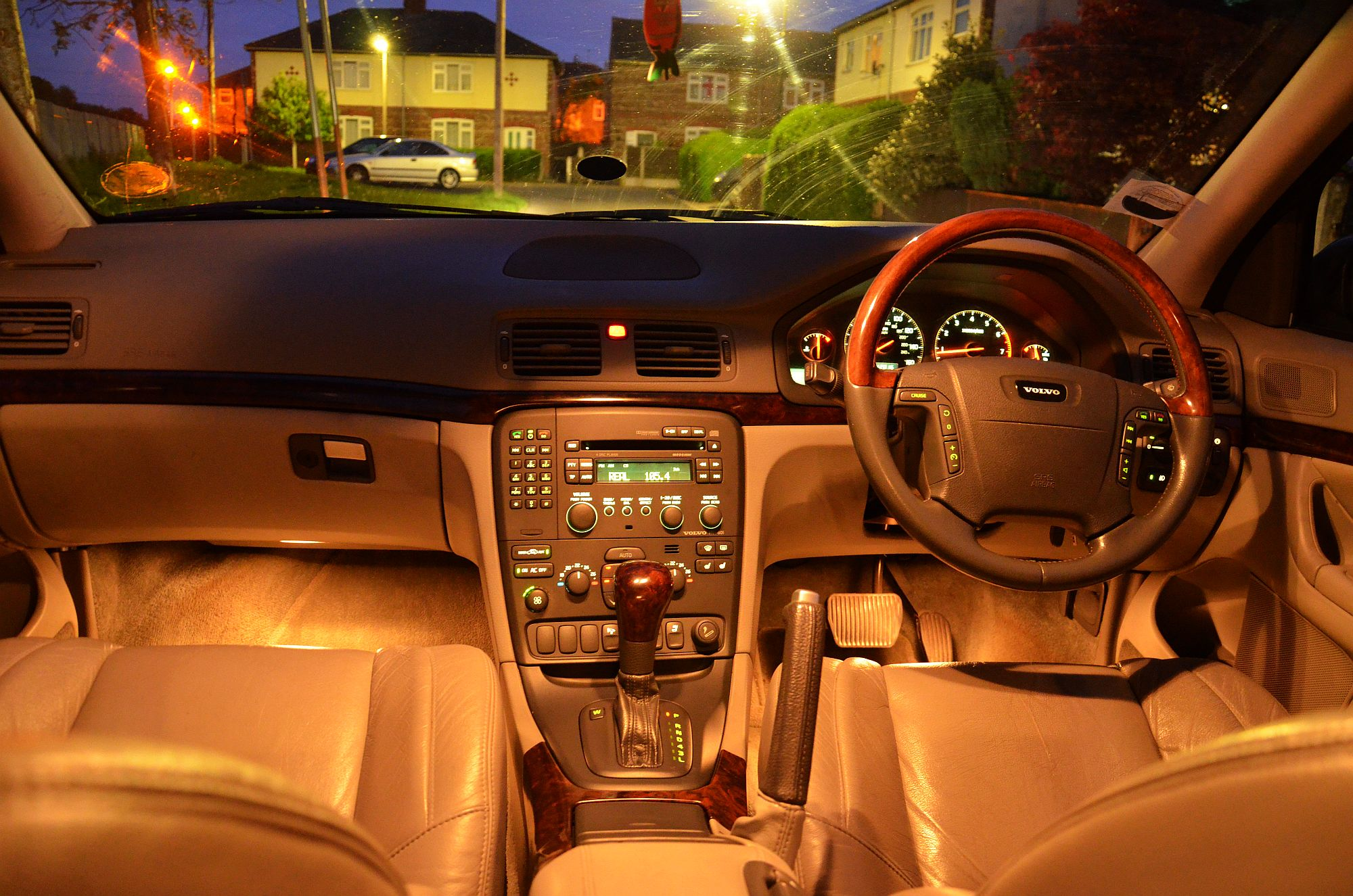 Volvo S80 2.4T 2002 Blue, night dashboard lights.